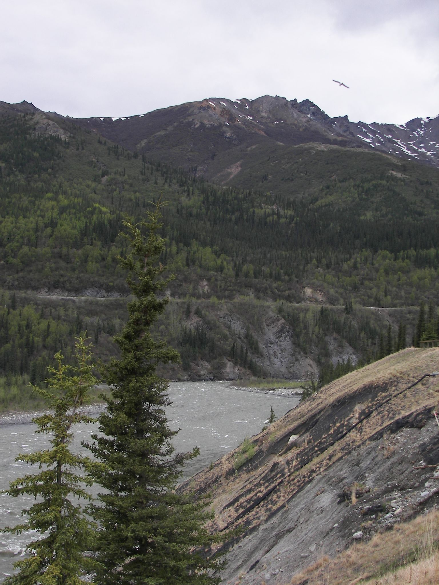 The view from our lodge's deck.